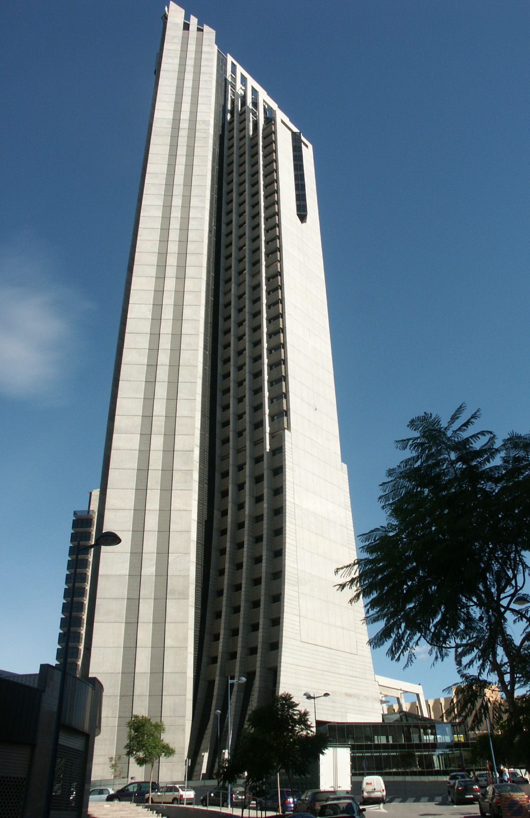 Bob Nienhuis, original photograph Gran Hotel Bali, Benidorm